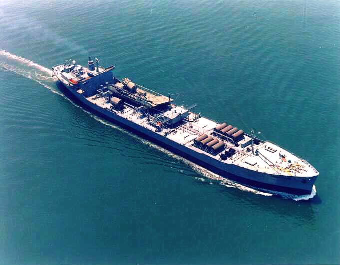 United States Military Sealift Command transport oiler SS Chesapeake (AOT-5084)